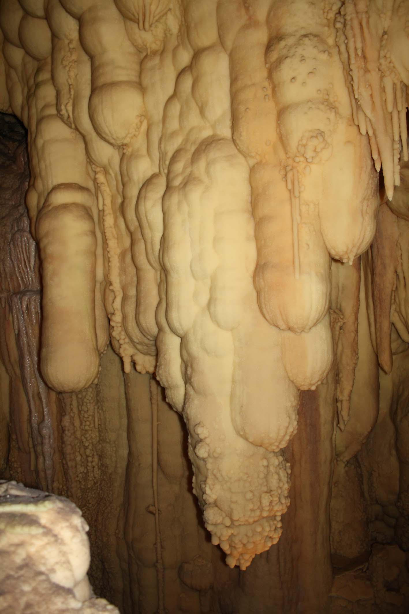 Grotta della Bàsura, Toirano (SV)